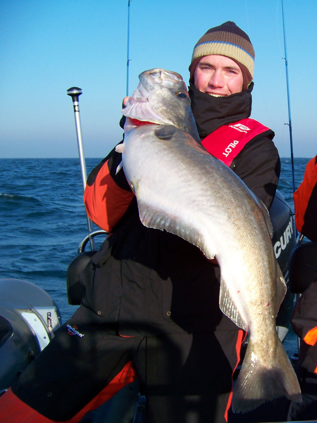 France record Pollack caught by Guillaume Fourrier, saved on the 16lbs class line.